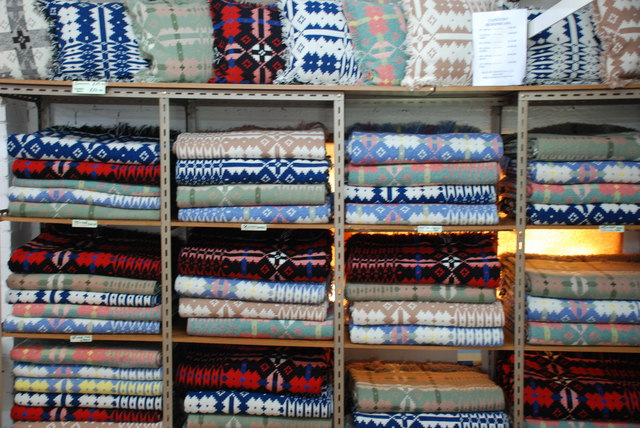 Carthenni Cymreig - Welsh Blankets: A range of traditional double-woven tapestry blankets in the factory shop at Melin Brynkir.